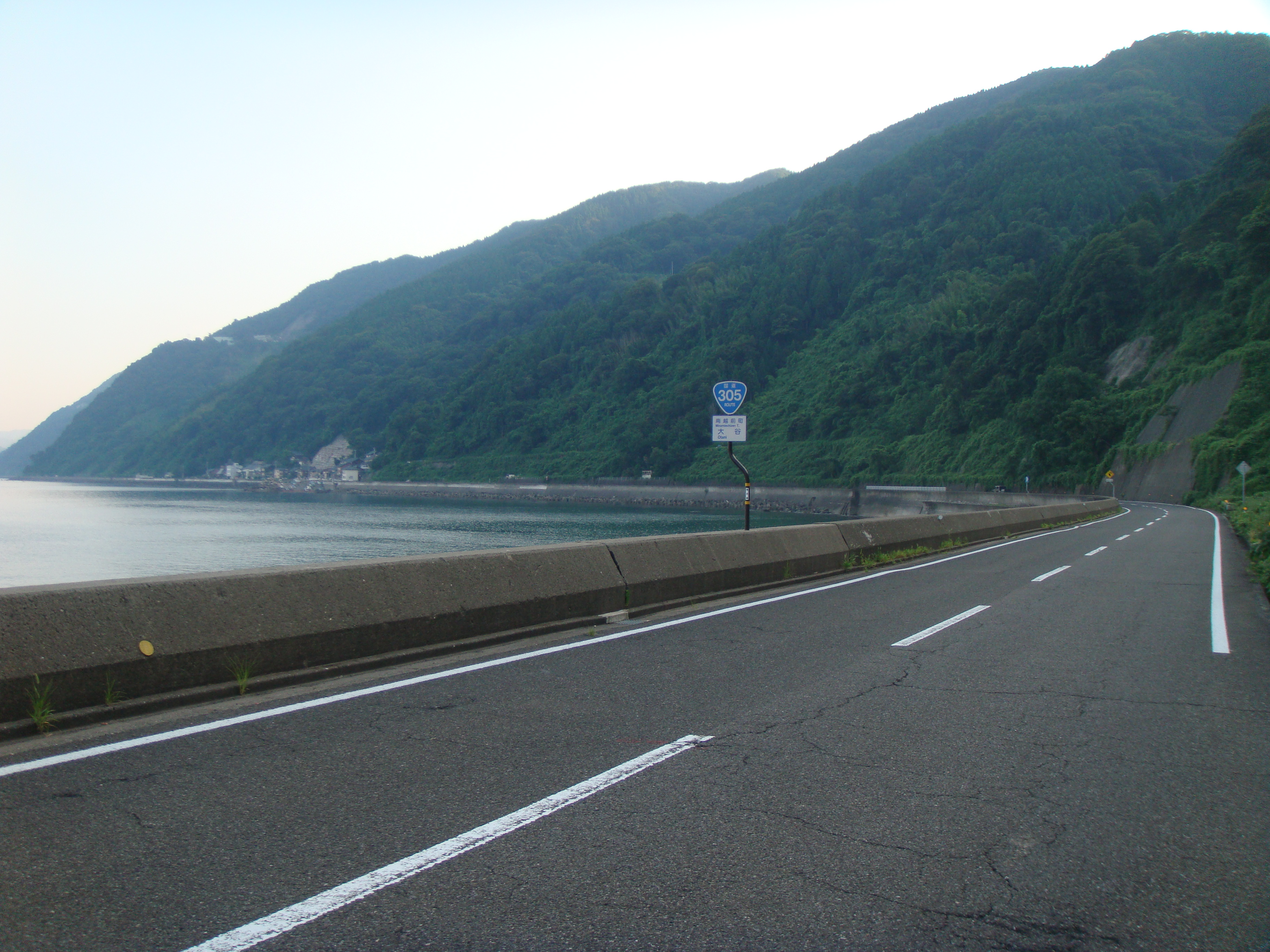 Japan National Route 305 （Echizen-Kono Shiokaze Line） Place - Otani,Minamiechizen Town,Nanjo County,Fukui Prefecture,Japan Date - July 16, 2011 Format - JPEG, 3648x2736pixel, 24bit colors Photographer - NALA Wiki (talk)